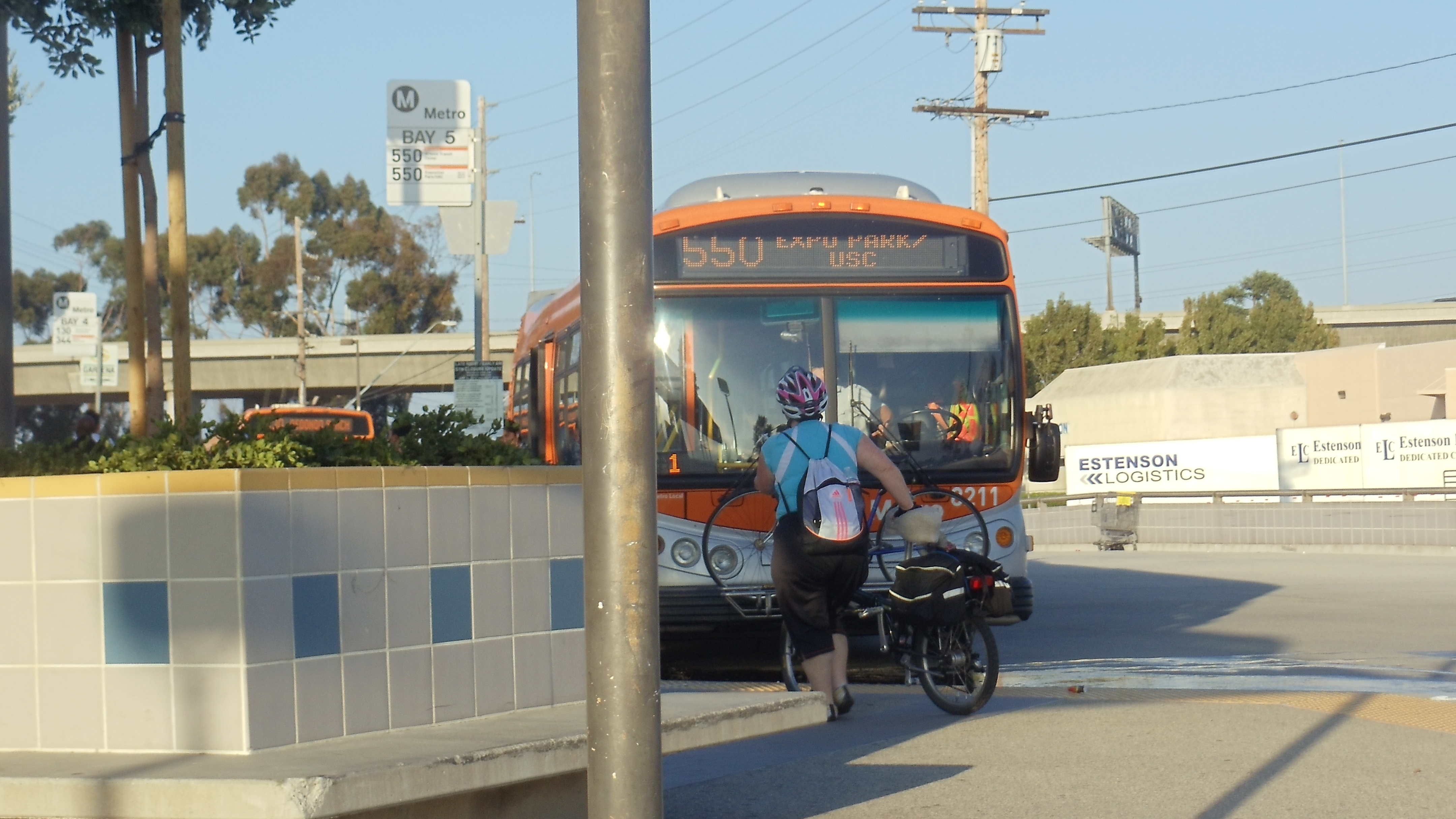 Metro Express Line: 550 at Artesia Transit Center.